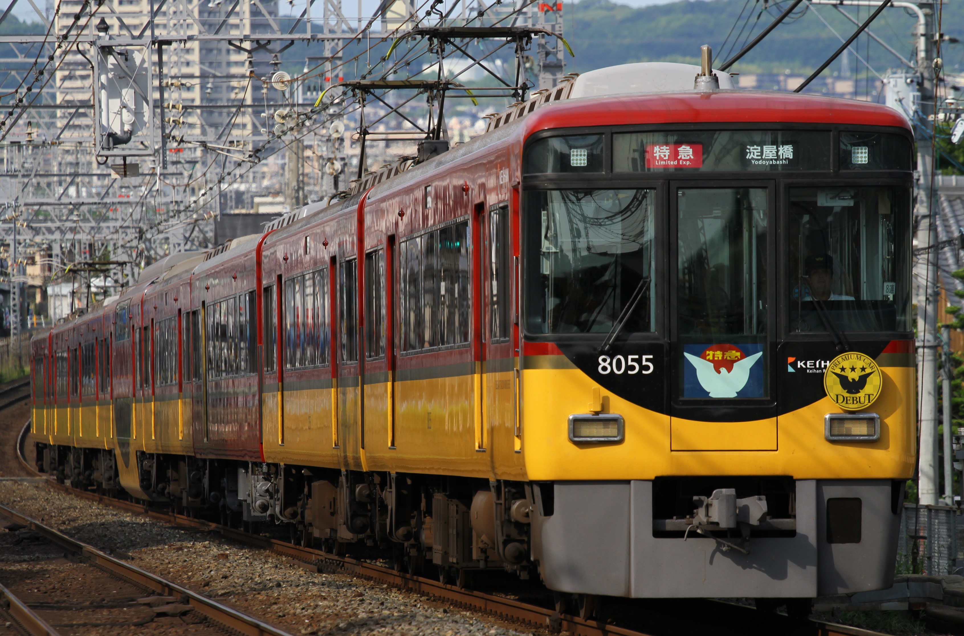 Keihan Electric Railway 8000 series EMU set 8005 at Makino Station on the Keihan Main Line. This set includes a reserved-seat "Premium Car" (third car from camera).